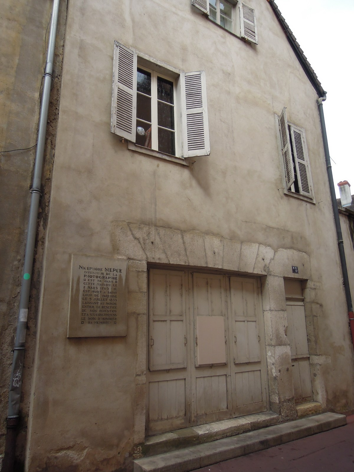 Niepces birthplace at Chalon s.S.